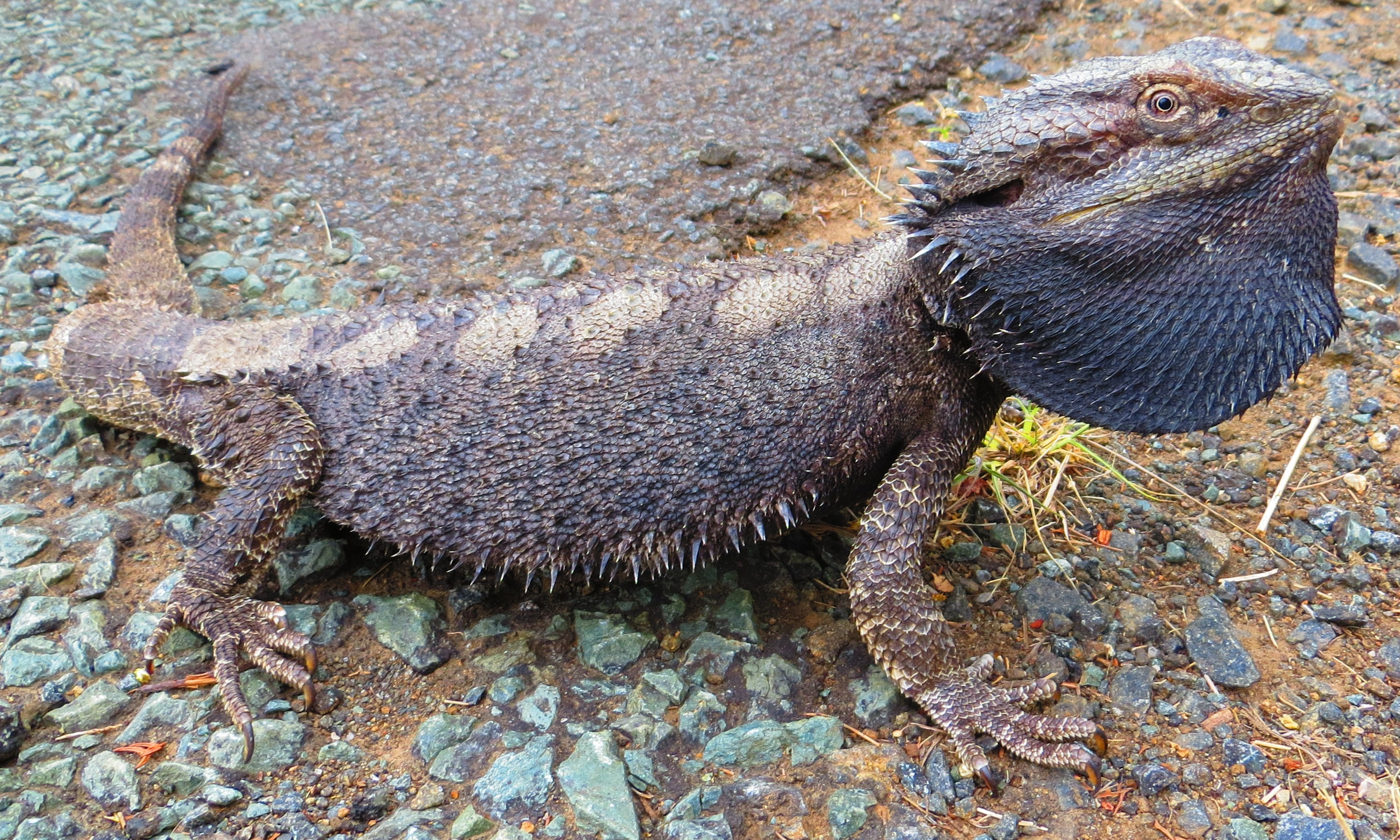 Eastern bearded dragon (Pogona barbata) on Christmas Creek Road, Lamington, Queensland, Australia